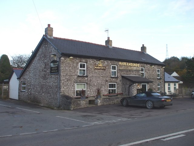 The Hare & Hounds, Aberthin, near Cowbridge